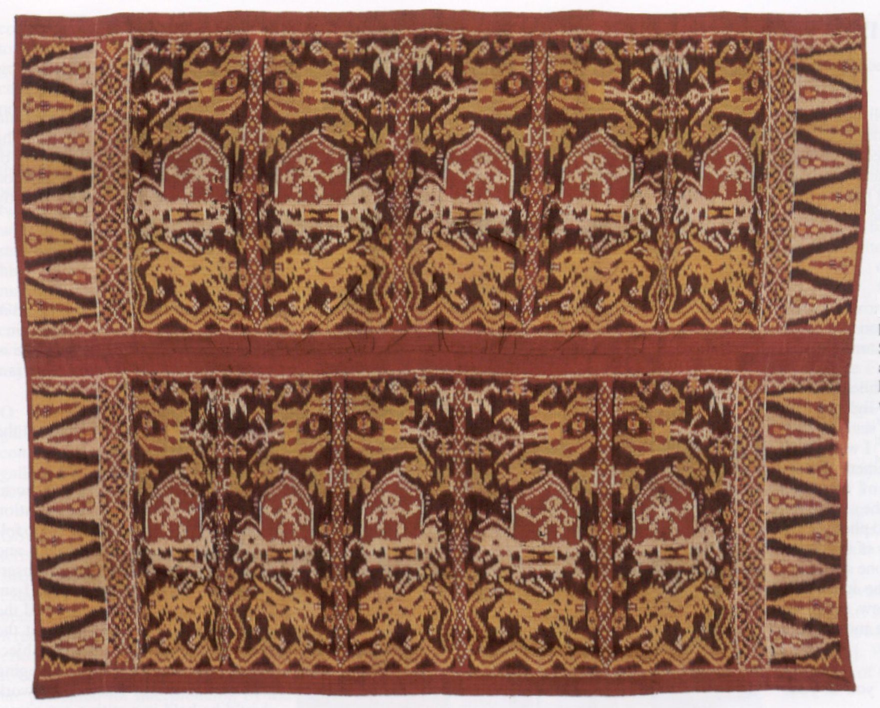 Kain endek (ceremonial ikat hanging) from Buleleng, Bali, Indonesia, late 19th century, silk with weft ikat, Honolulu Academy of Arts